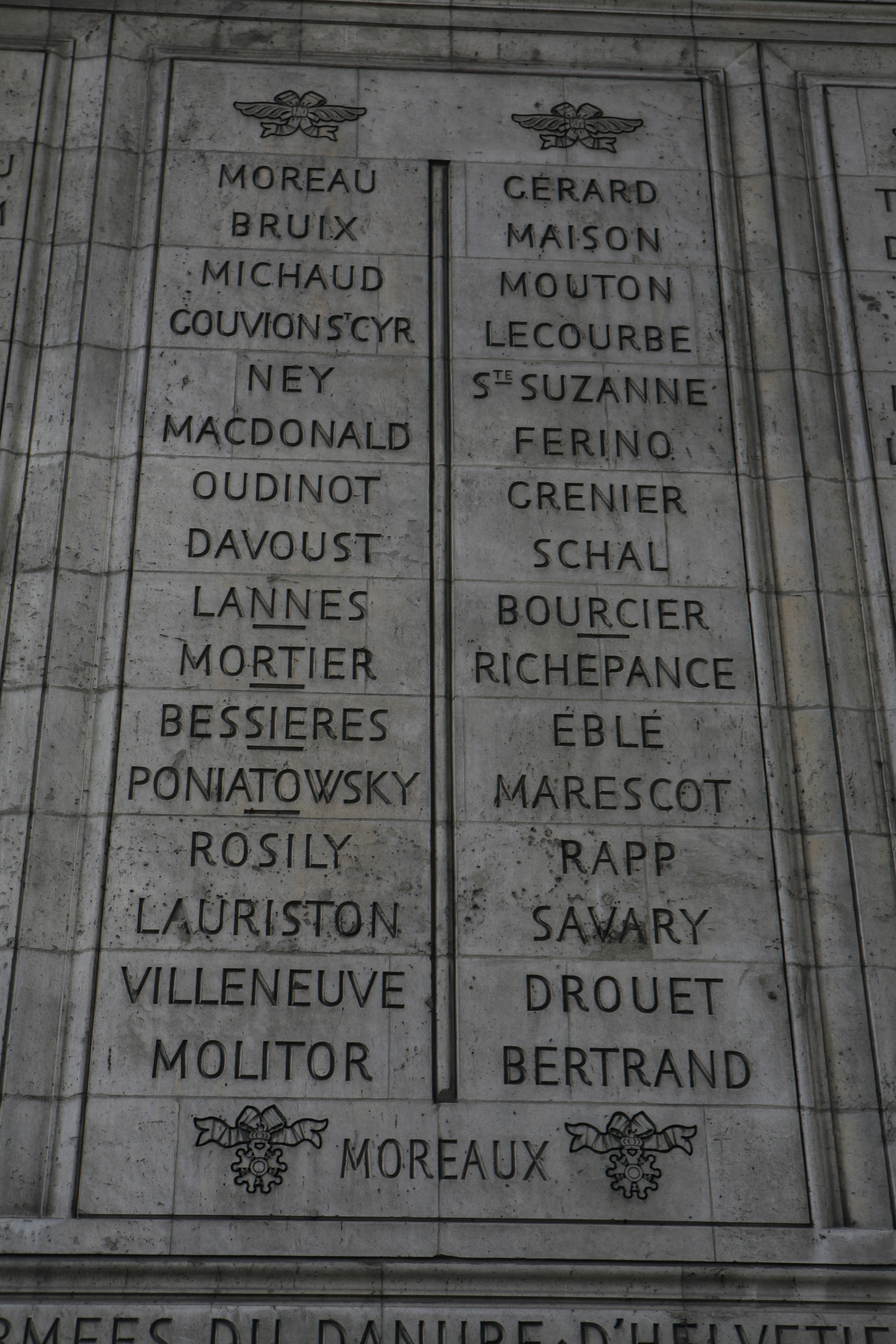 Inscriptions of the Arc de Triomphe, Eastern pillar, Columns 13, 14.